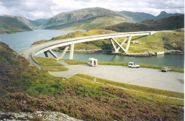 Kylesku Bridge. Looking down the slopes of Garbh-eilean to the parking/viewing area adjacent to the Kylesku Bridge.